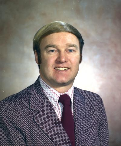 Representative Gary A. Nelson, 1973